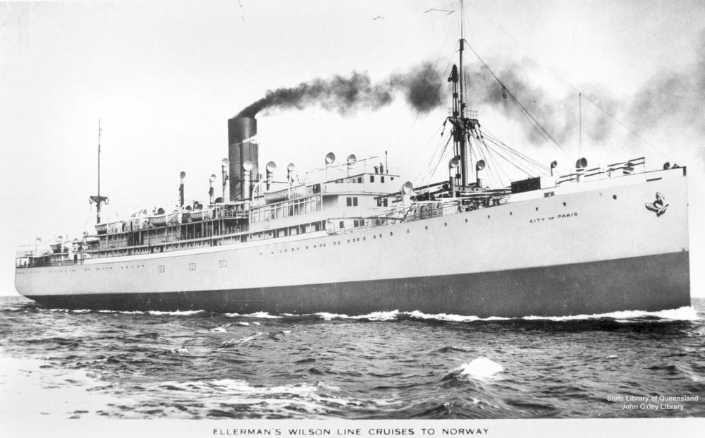 Ellerman's Wilson Line ship City of Paris, which operated cruises to Norway. (From description supplied with photograph.)